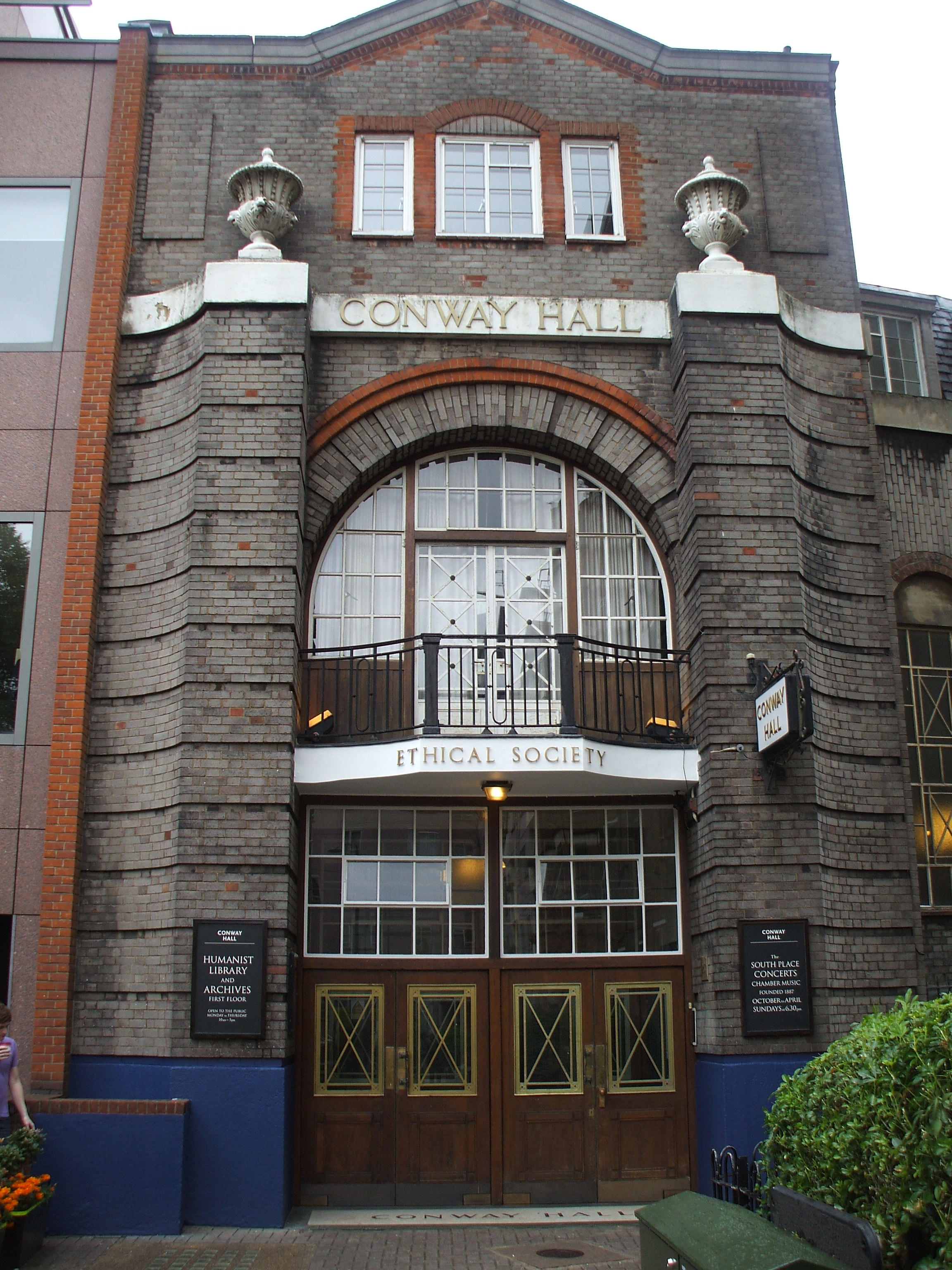 Entrance to Conway Hall, Holborn, London